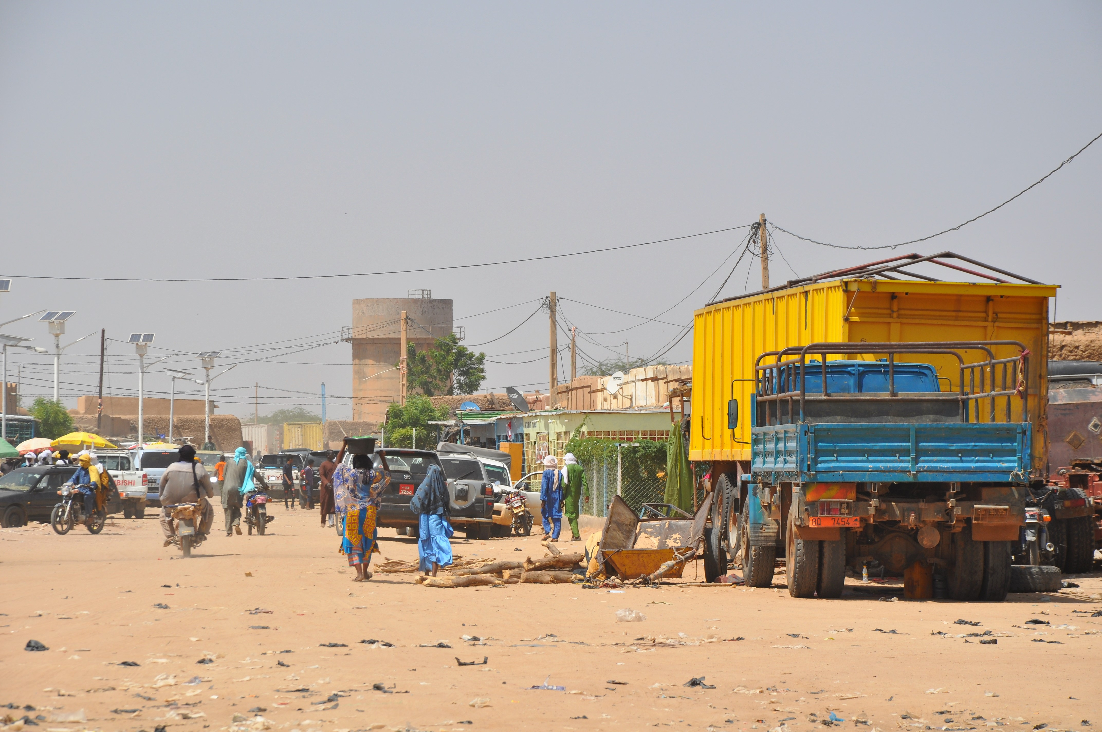 Main street in In-Gall, a town in central Niger (rural commune of In-Gall, Tchirozerine department, Agadez region).